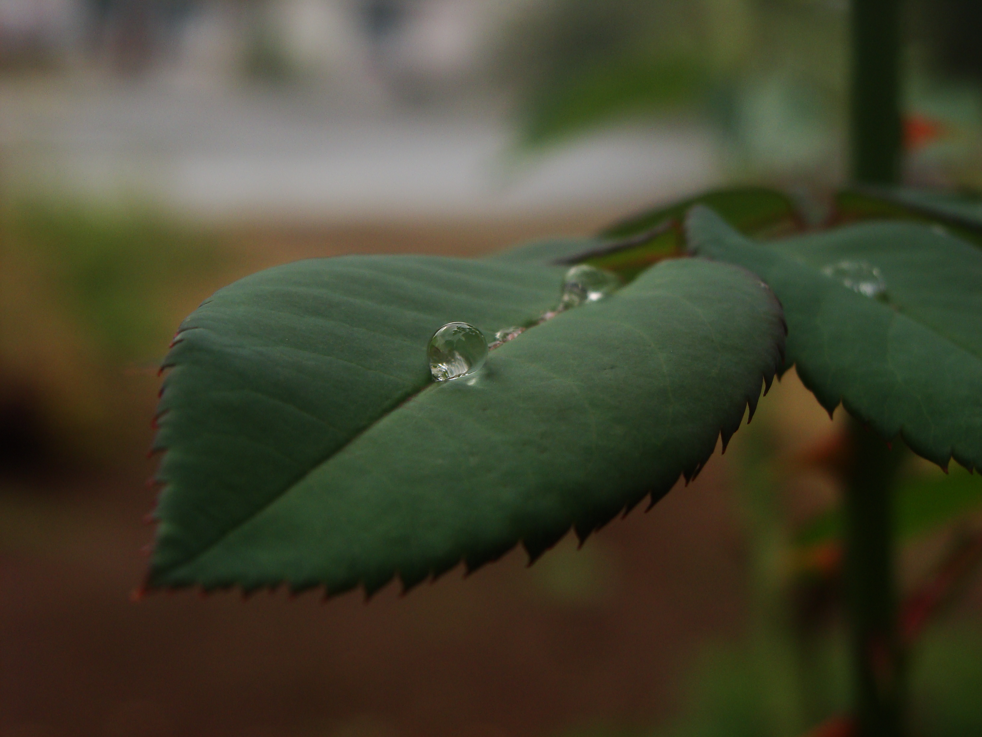 Landed from clouds, rested on leaf!